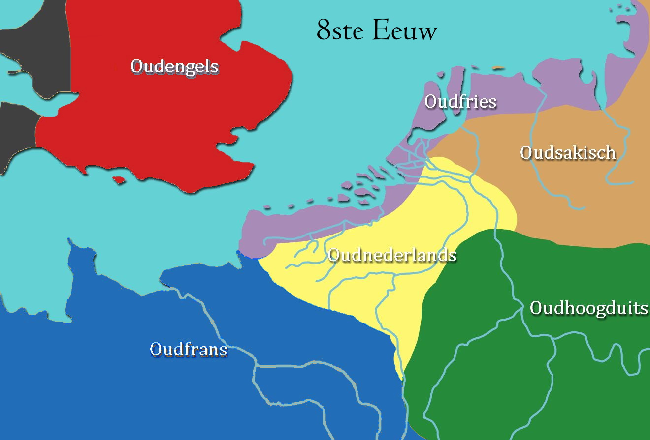 An illustration of the spread of majority languages in Western Europe around CE 700. Oudengels = Old English, Oudfrans = Old French, Oudfries = Old Frisian, Oudsaksisch = Old Saxon, Oudnederlands = Old Dutch, Oudhoogduits = Old High German. Note that these regions were in no way or sense homogenous, rather a collection of dialects.